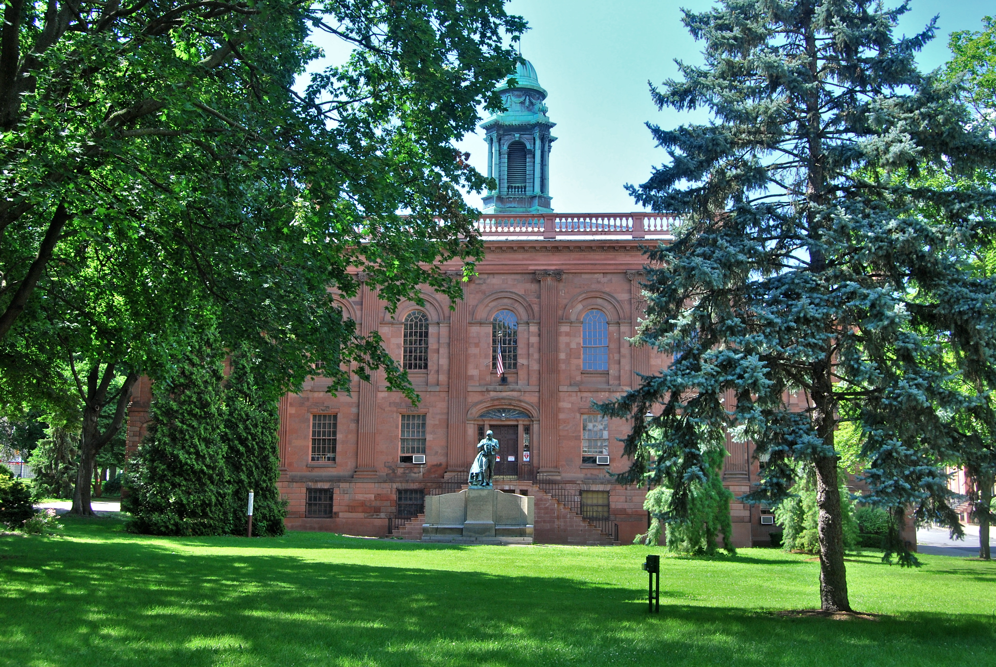 The Albany Academy, the original structure of the current institution; it currently houses the administrative offices of the City School District of Albany in Albany, New York